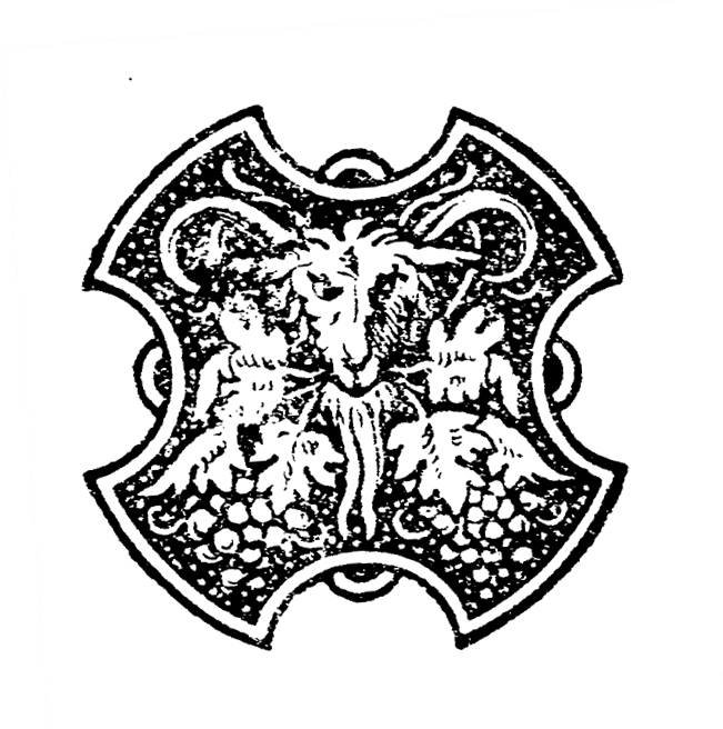 A Wily Goat Flanked by Grapes